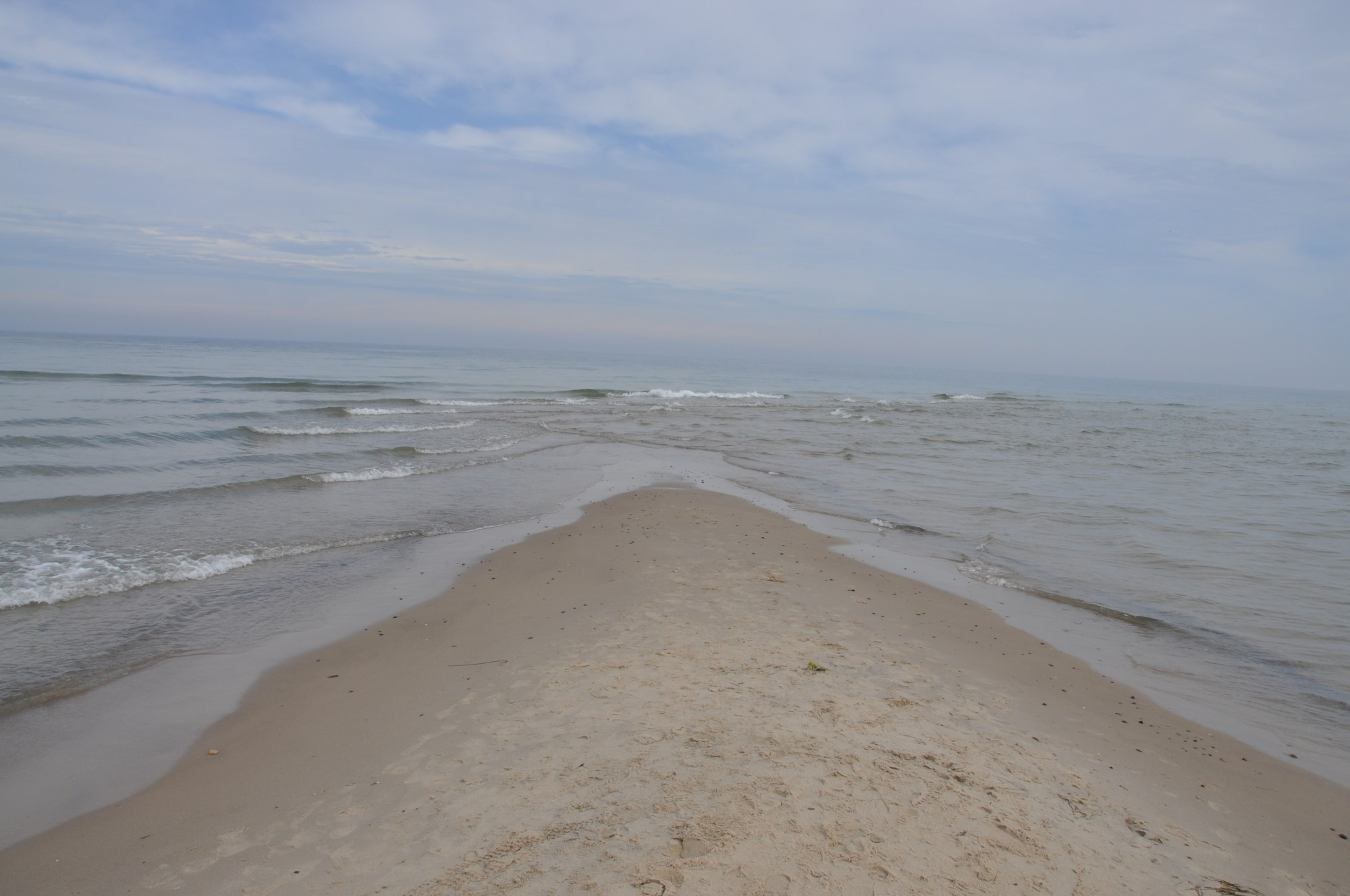 Grenen, Northernmost tip of Denmark, left is the north sea and right the baltic sea. Location: Jutland